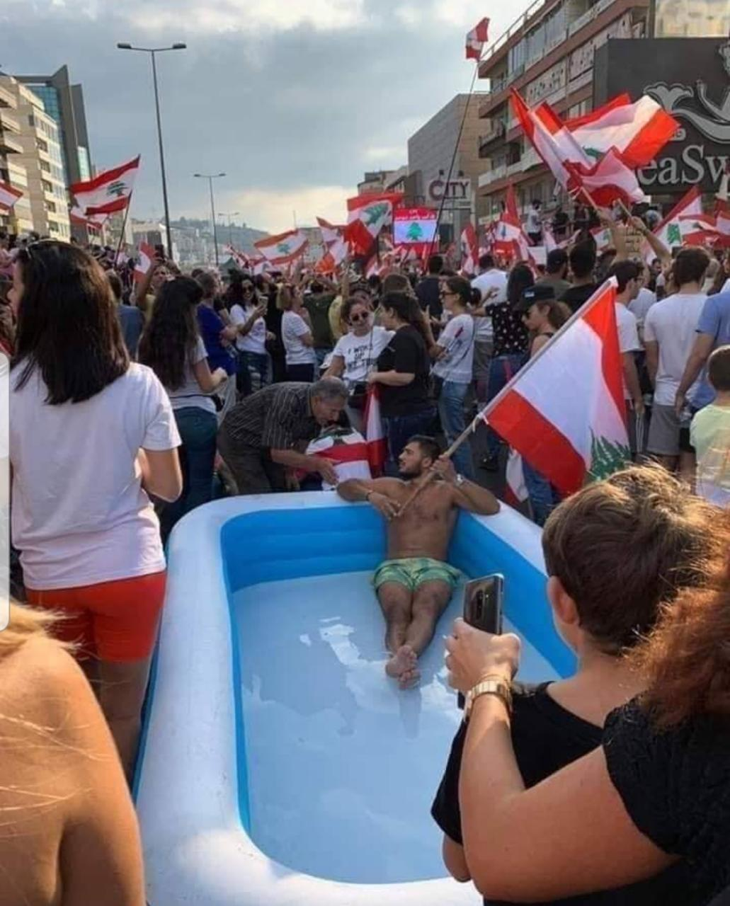 2019 protest in Lebanon